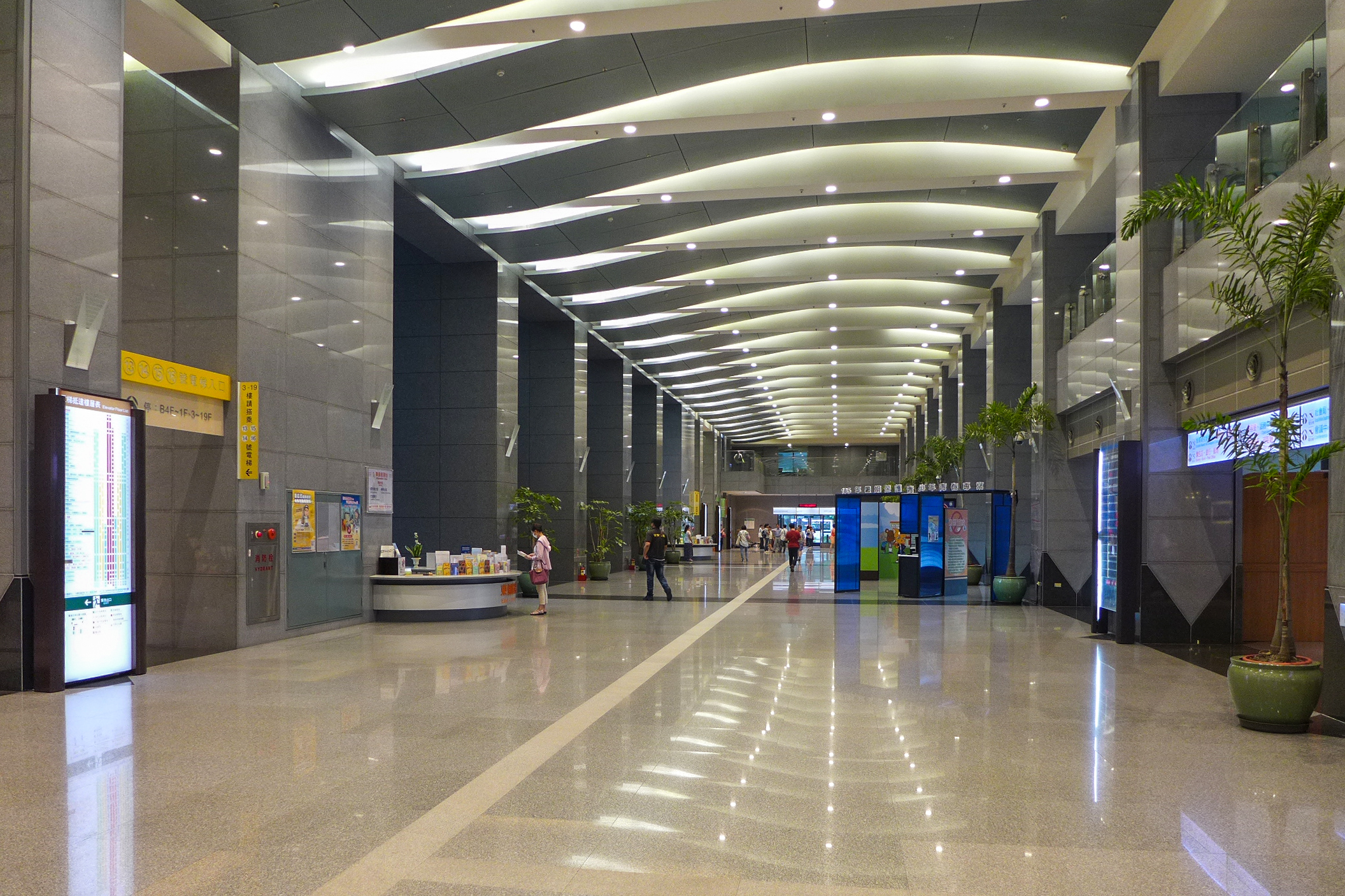 New Taipei City Hall Lobby